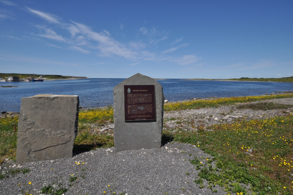 Port au Choix National Historic Site of Canada. "French Shore" plaque.